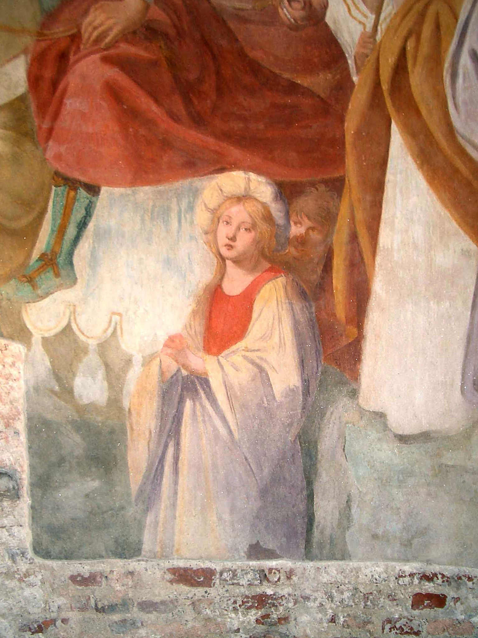 Unknown painter (follower of Morazzone), Scene of the Passion of Christ, fresco, XVII century, Baptistery, Novara